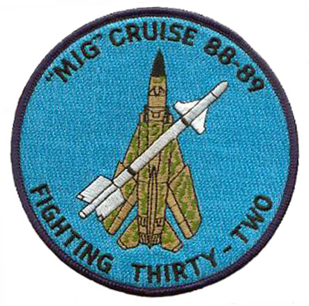 VF-32 special insignia.